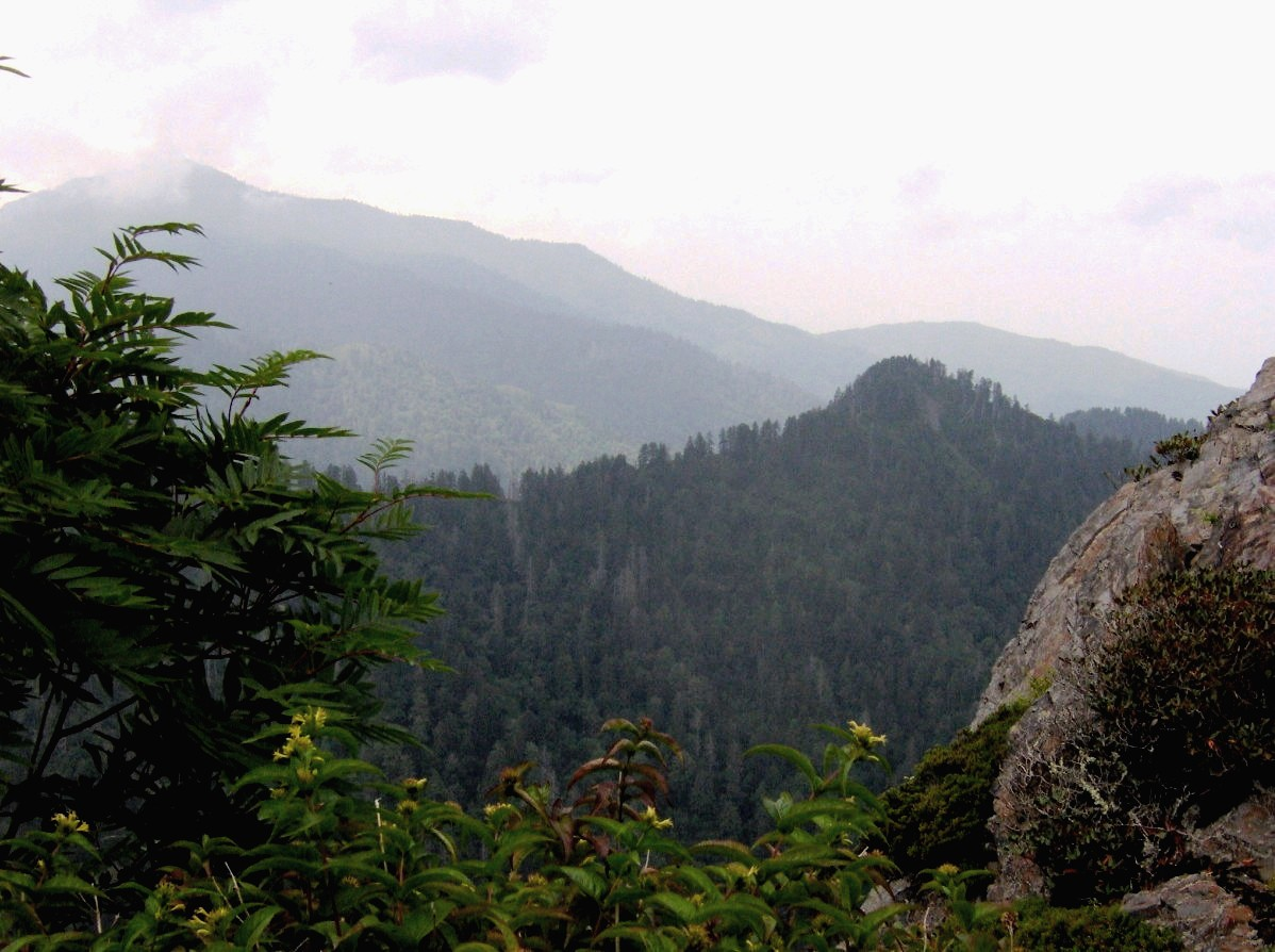 The view looking northwest from Charlies Bunion in the Great Smoky Mountains of Tennessee and North Carolina. Mount Le Conte rises on the upper left. The peak on the right is Horseshoe Mountain.